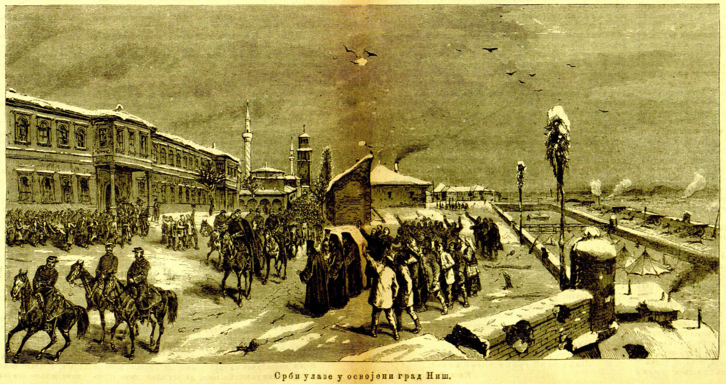 Serbian army entering the city of Nish 1877.